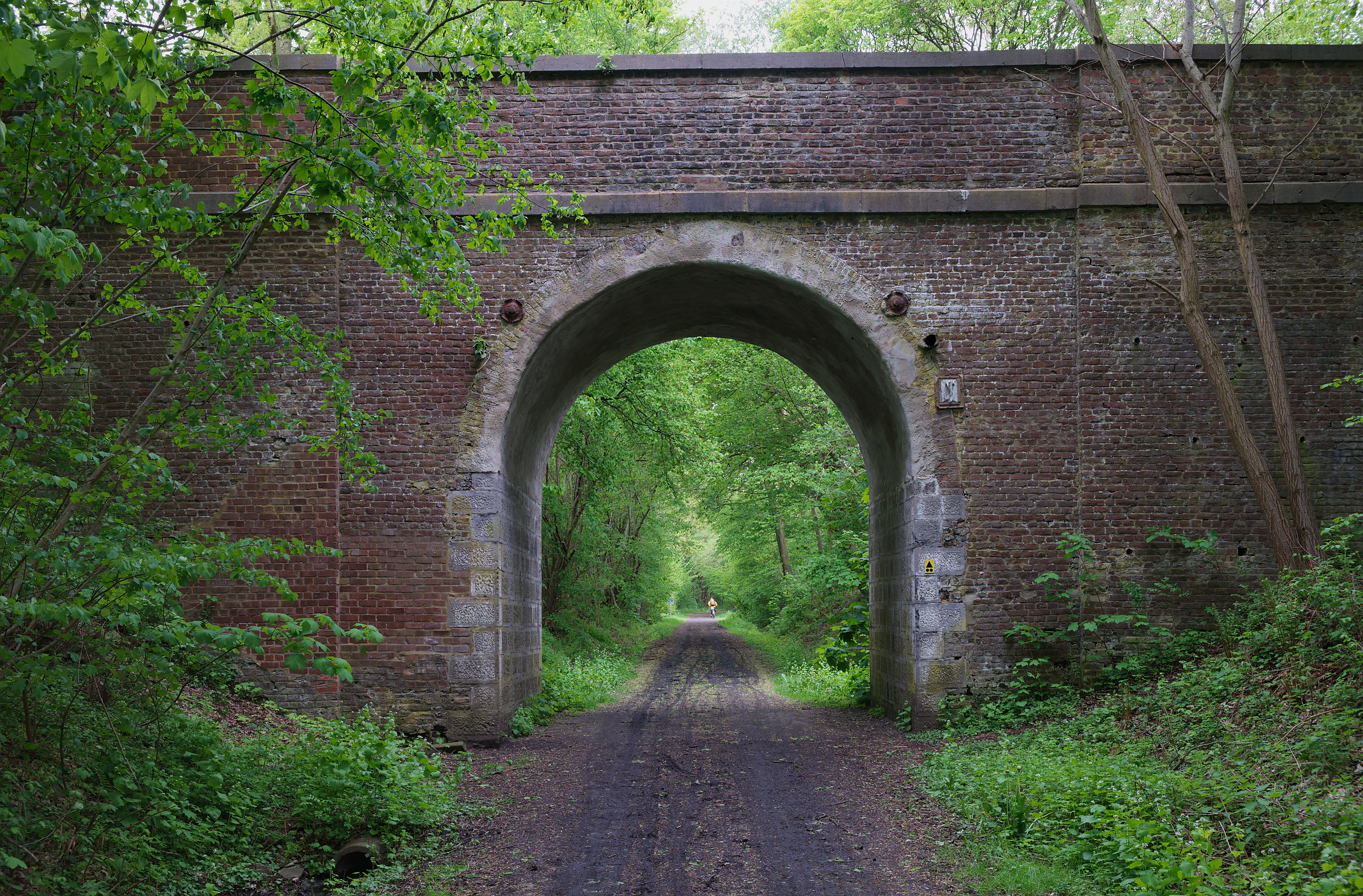 Bridge over the RAVeL 38 in Thimister-Clermont, Belgium